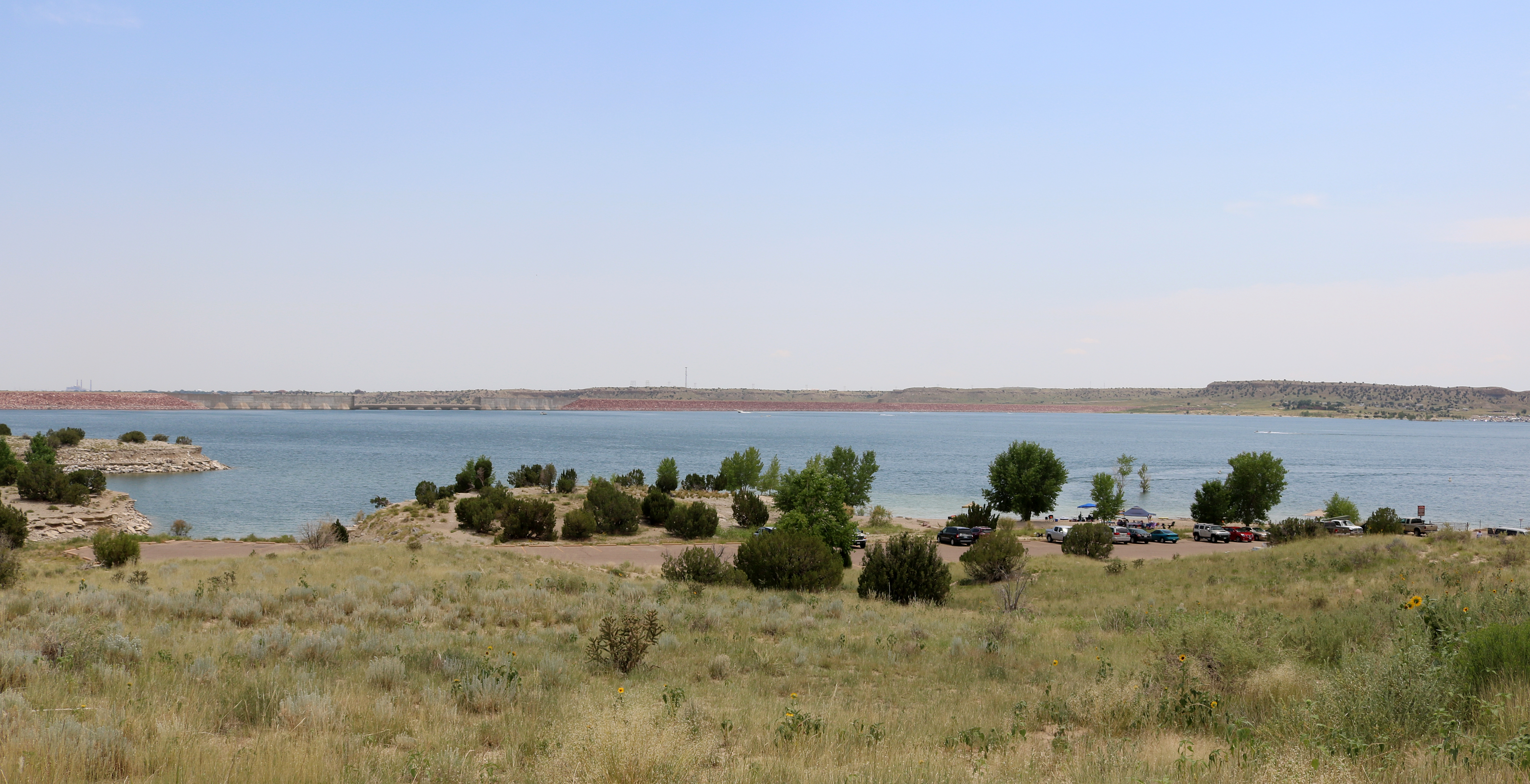 A view across Lake Pueblo in Lake Pueblo State Park. The view is towards the south from Juniper Road.